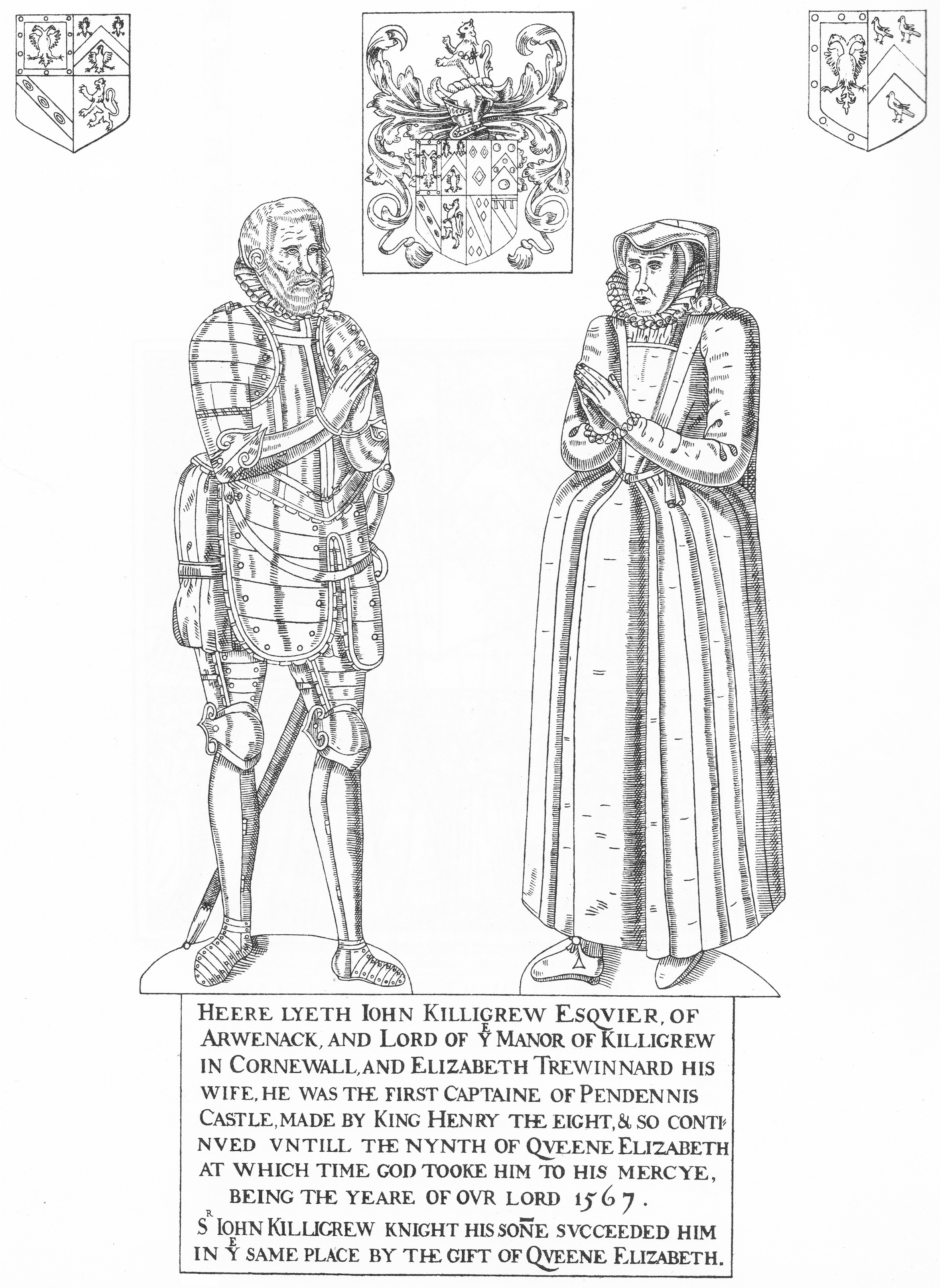 Monumental brass in St Budock's Church, Budock Water, near Falmouth, Cornwall, of John III Killigrew (d.1567) of Arwenack, near Falmouth, first Governor of Pendennis Castle, Falmouth, appointed by King Henry VIII. Inscription: "Heere lyeth John Killigrew, Esquier, of Arwenack and lord of ye manor of Killigrew in Cornewall, and Elizabeth Trewinnard his wife. He was the first Captaine of Pendennis Castle, made by King Henry the eight and so continued untill the nynth of Queene Elizabeth at which time God tooke him to his mercye, being the yeare of Our Lord 1567. Sr John Killigrew, Knight, his son(n)e succeeded him in ye same place by the gift of Queene Elizabeth". (See: Dunkin, Edwin Hadlow Wise, The Monumental Brasses of Cornwall with Descriptive, Geneaological and Heraldic Notes, 1882, pp.36-7) His son Sir John IV Killigrew (d.1583/4) of Arwennack succeded him as 2nd governor. (See: Pedigree of Killigrew, Vivian, J.L., ed. (1887). The Visitations of Cornwall: comprising the Heralds' Visitations of 1530, 1573 & 1620; with additions by J.L. Vivian. Exeter, p.268[1])